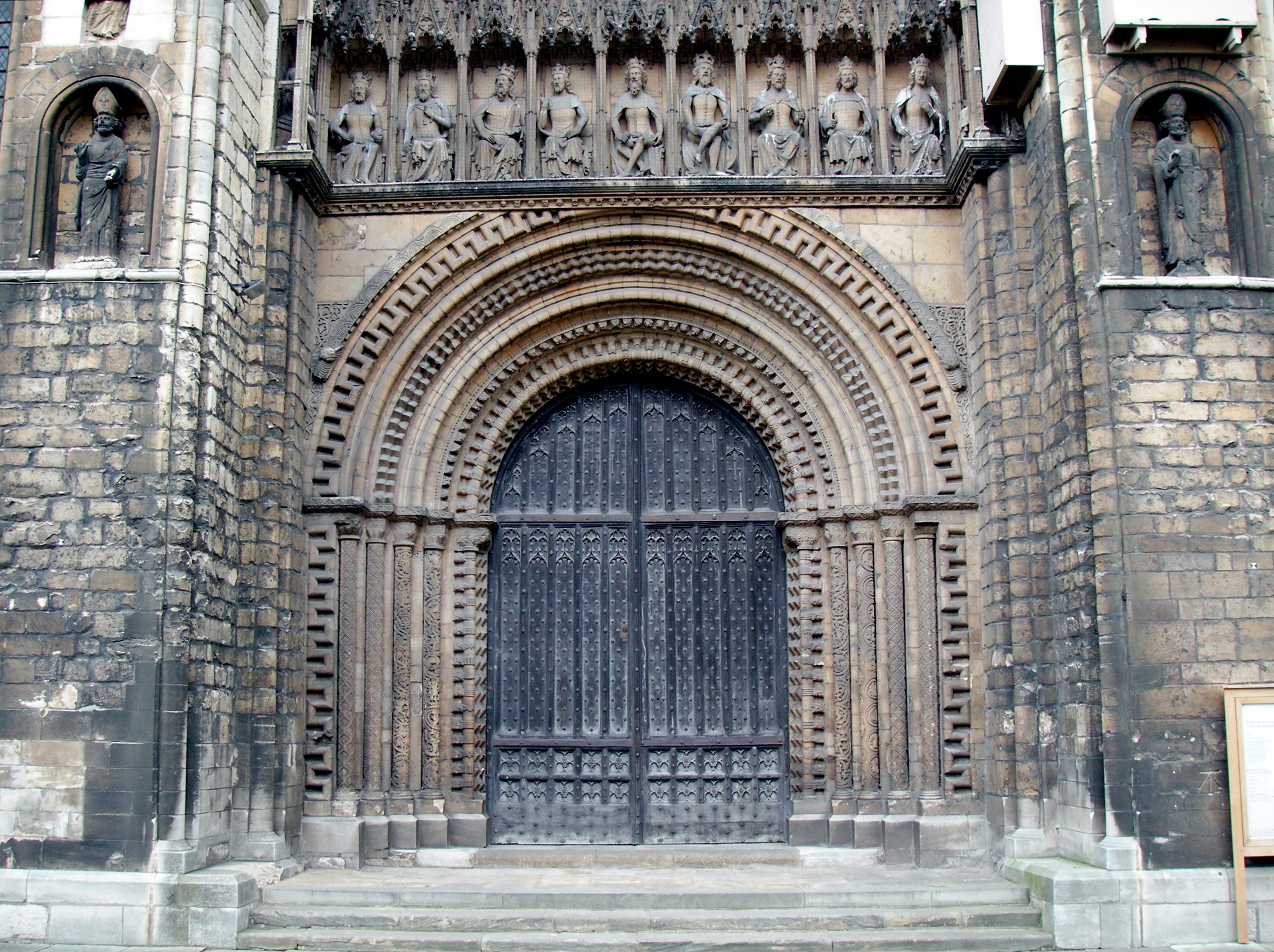 Lincoln Cathedral, gallery of kings